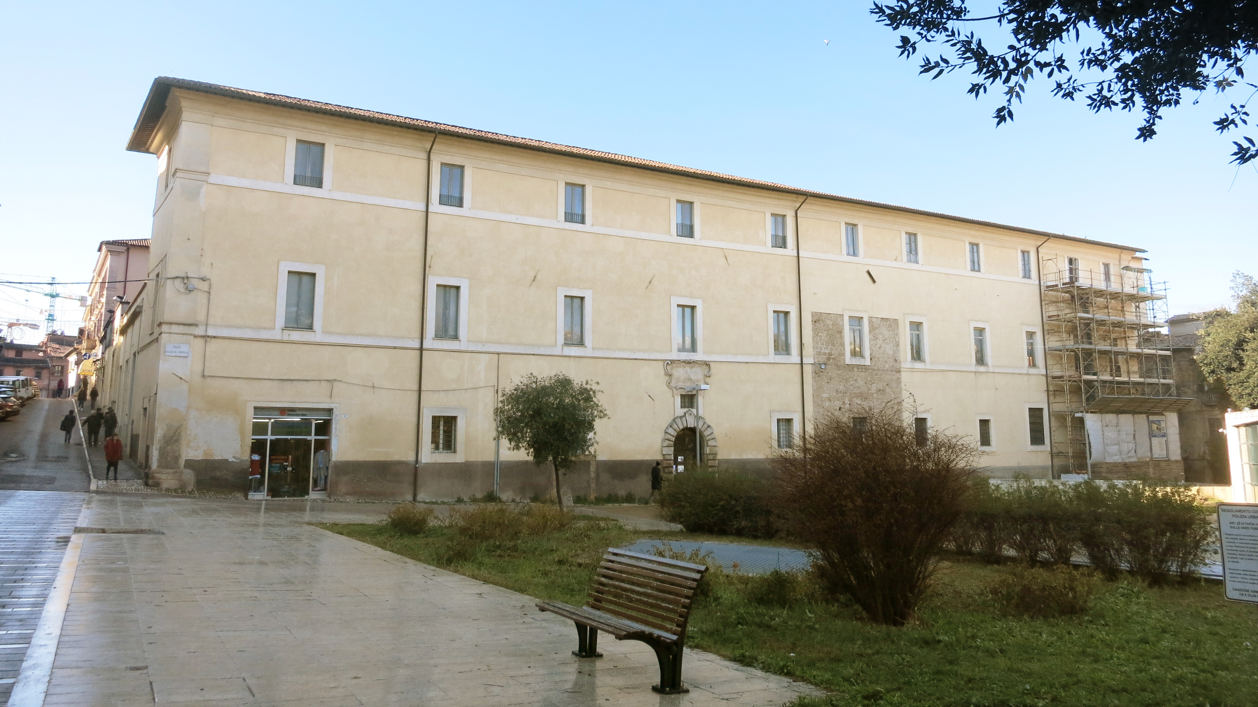 Seminary Palace - Rieti, Lazio, Italy